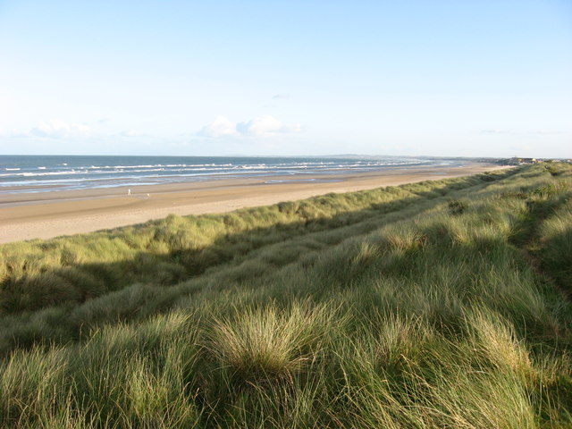 The Burrows, Bettystown, Co. Meath The dunes known as The Burrows run from Bettystown to the mouth of the River Boyne.